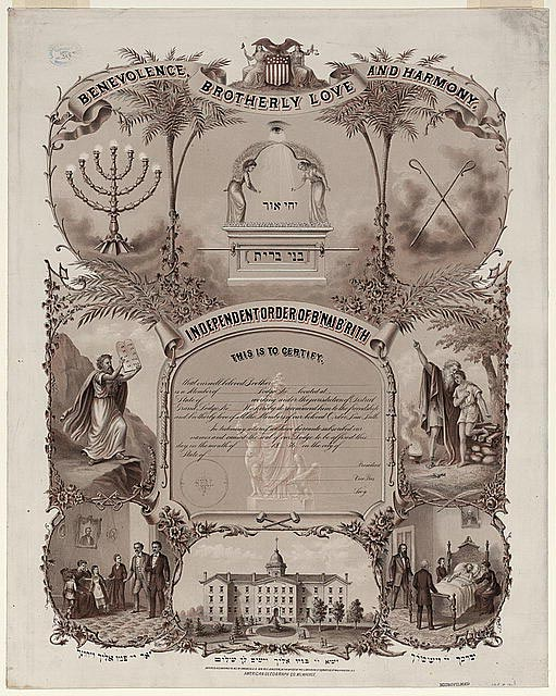 B'nai B'rith Membership Certificate, 1876